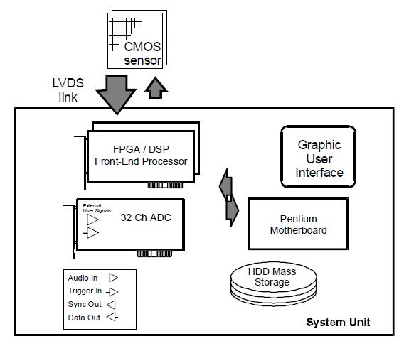 System Overview of the Eye Tracking Device